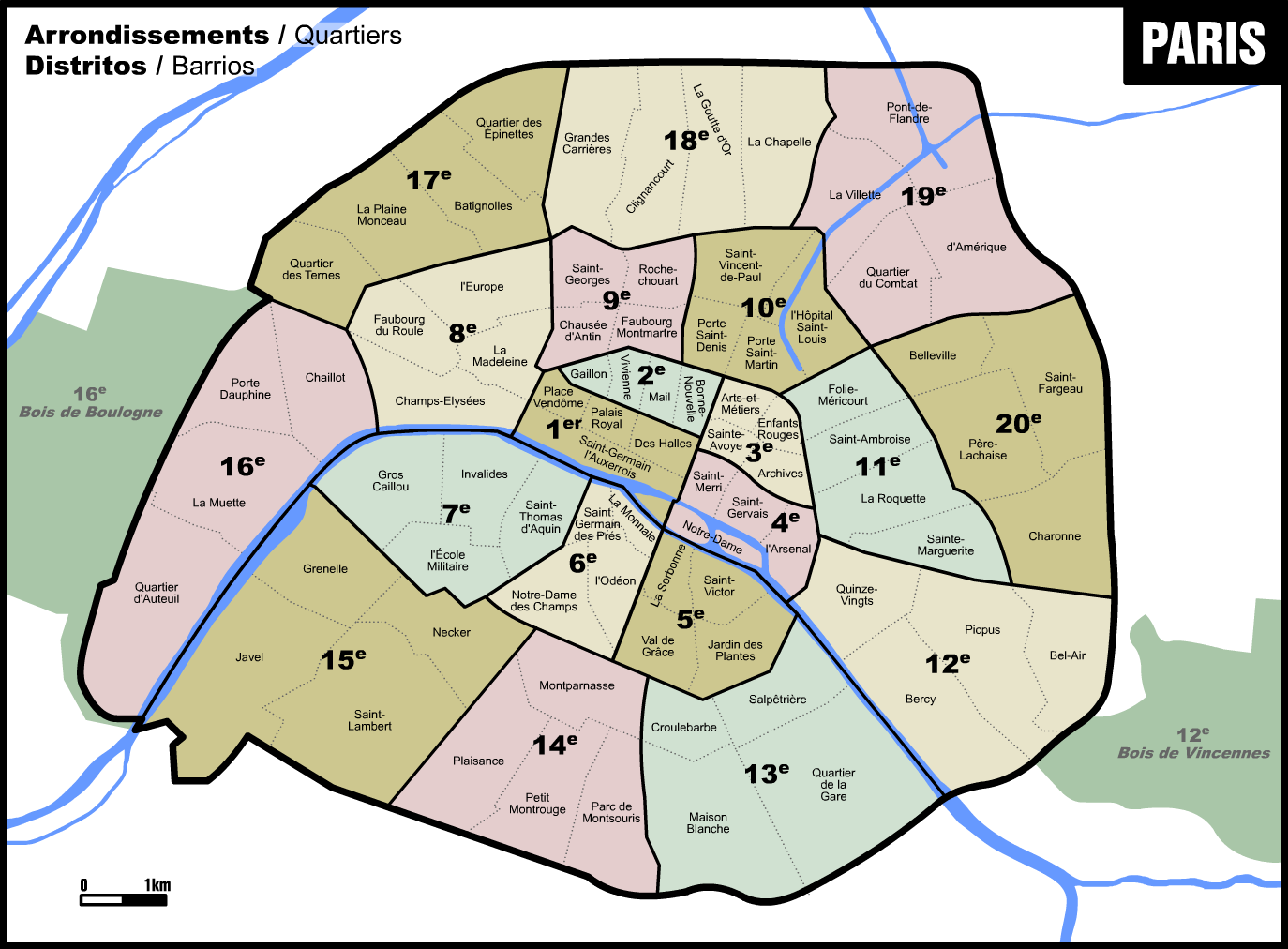 Districts and boroughs of Paris